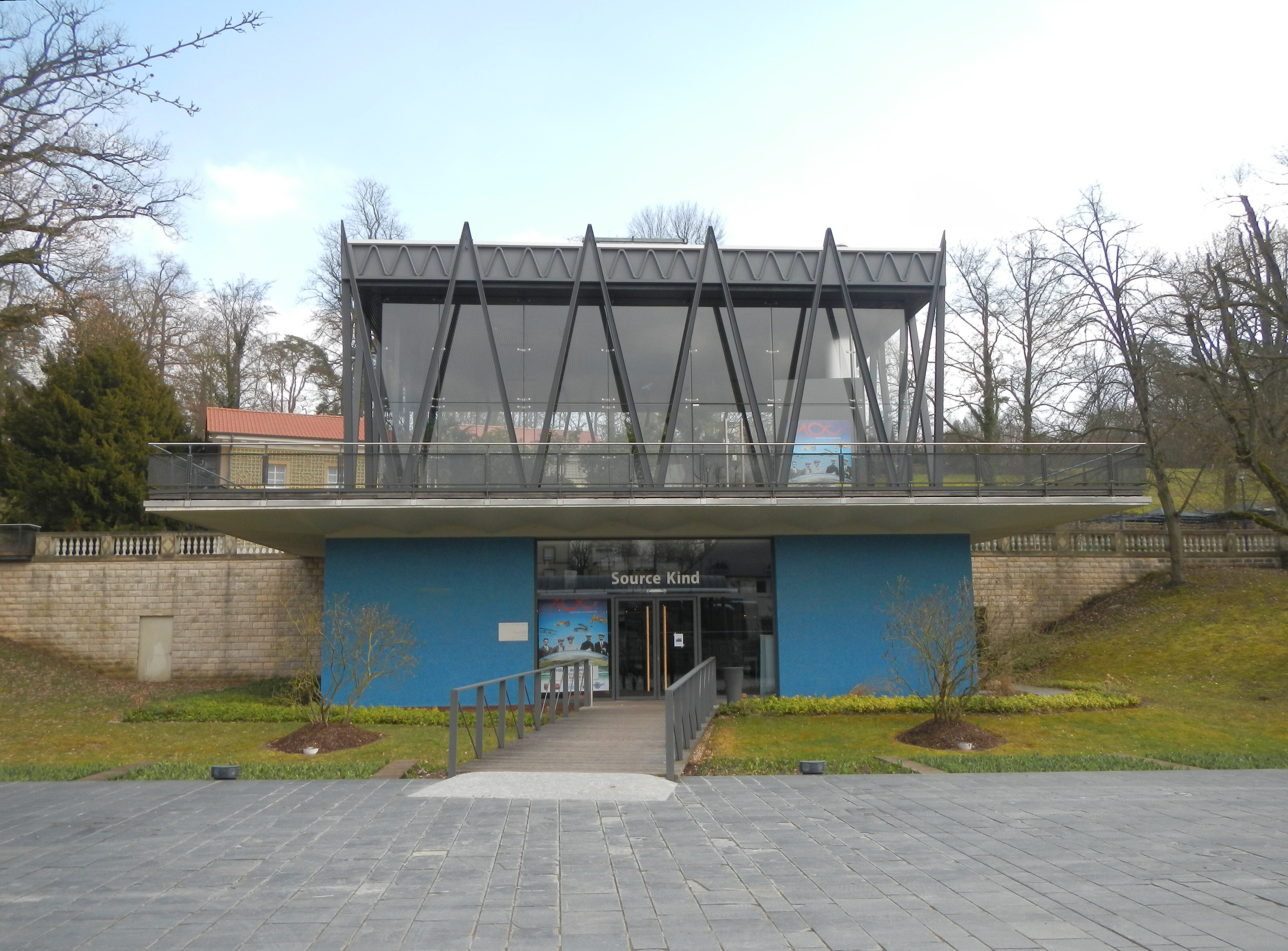 The Kind-Source in the park of the spa in Mondorf, Luxembourg.